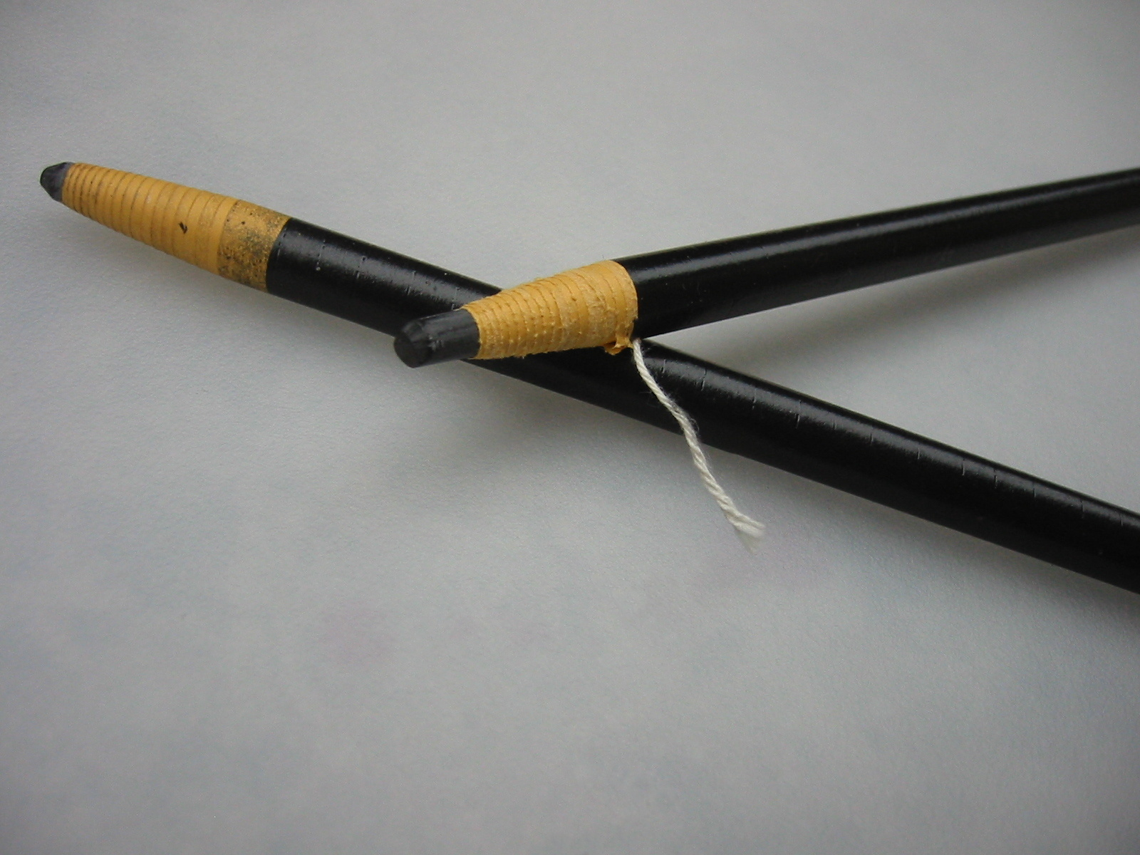 A grease pencil (UK chinagraph pencil) is made of hard colored wax and is useful for marking on hard, glossy surfaces such as porcelain or glass.